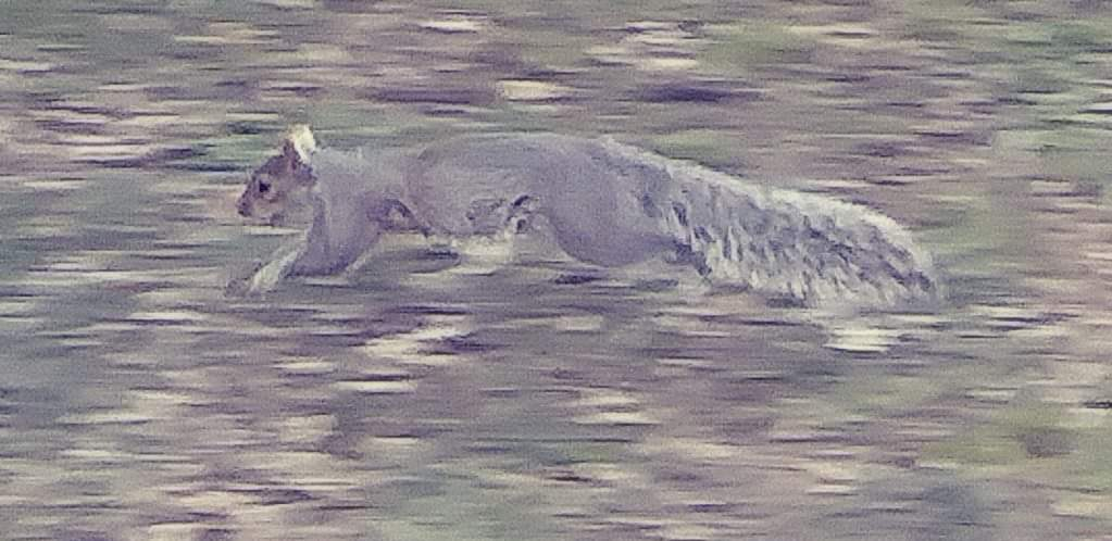 Eastern gray squirrel (Sciurus carolinensis) bounding across a lawn in Central Park 2018